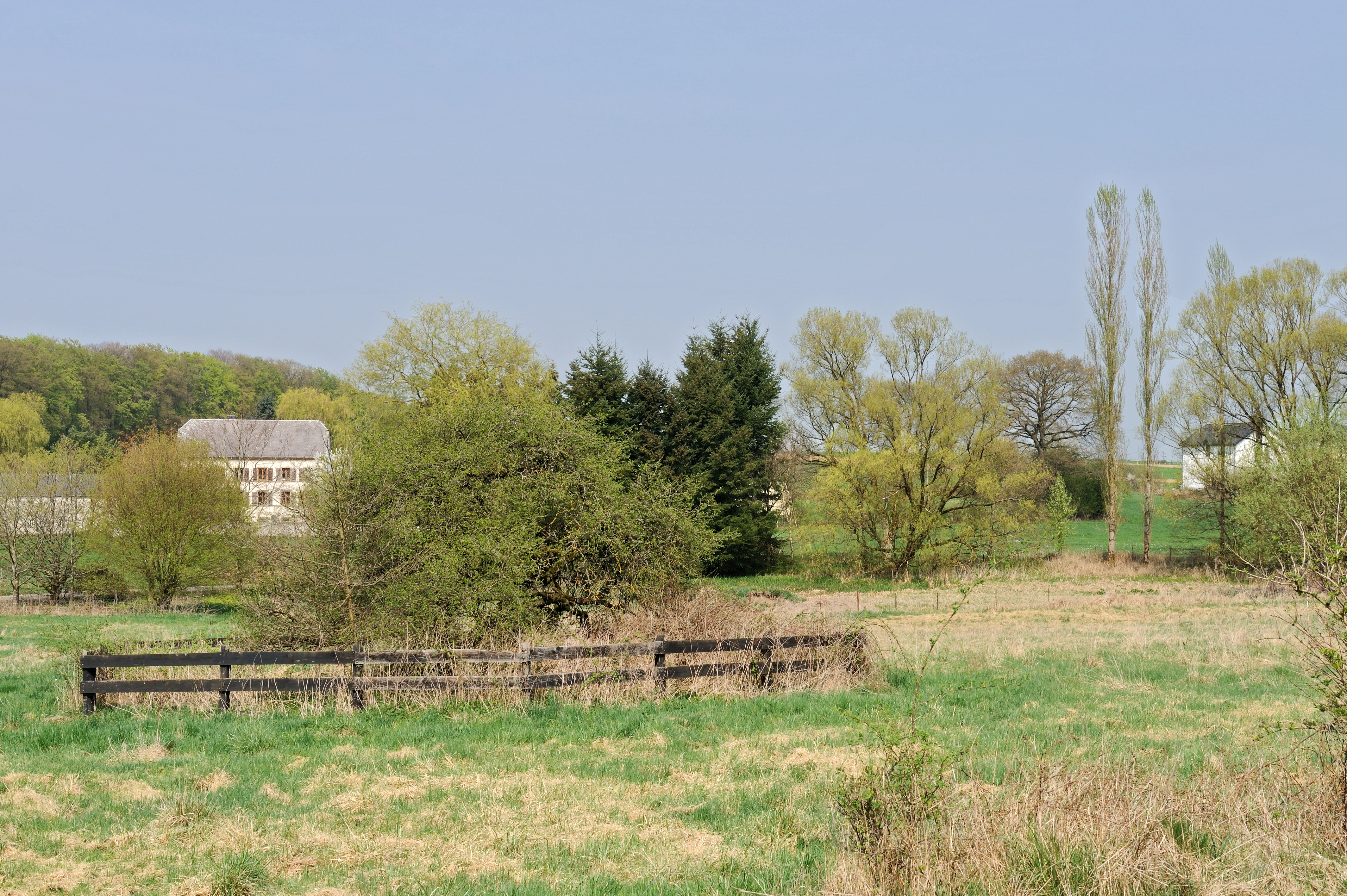 Remarkable Rhamnus cathartica at Ehner in Luxembourg